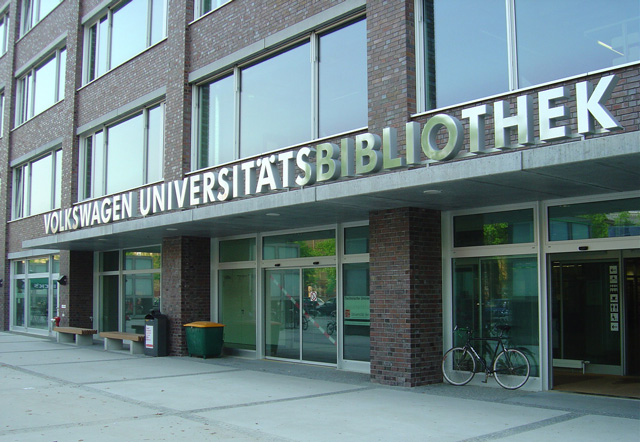 TU Universitätsbiblitiothek (Volkswagen Universitätsbibliothek), The University Library of the TU Berlin, Fasanenstraße